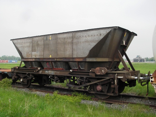 351207 extant at Moreton In Marsh Fire Training College